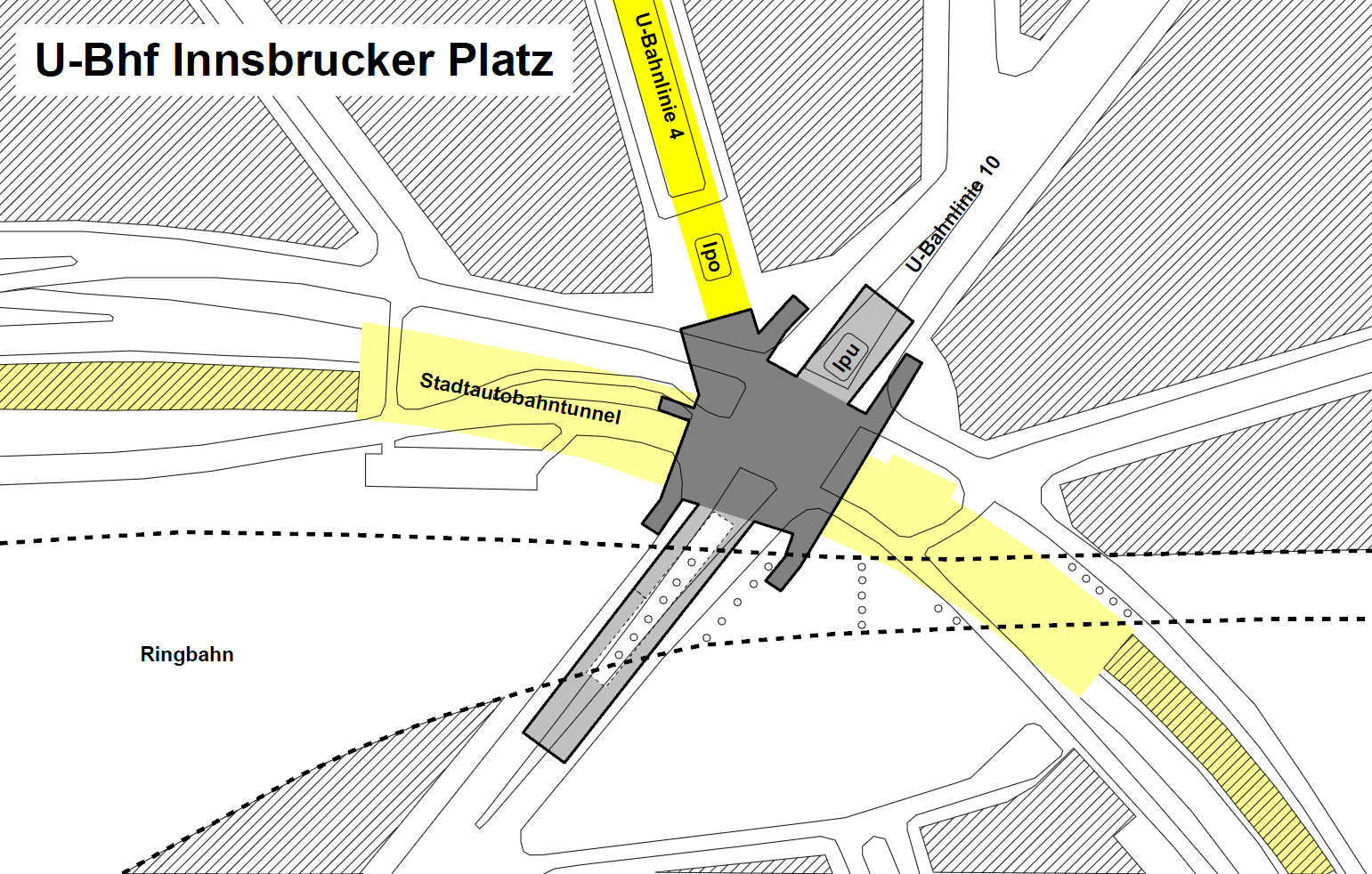 Map of non-operating metro line U10 at Innsbrucker Platz in Berlin Schöneberg